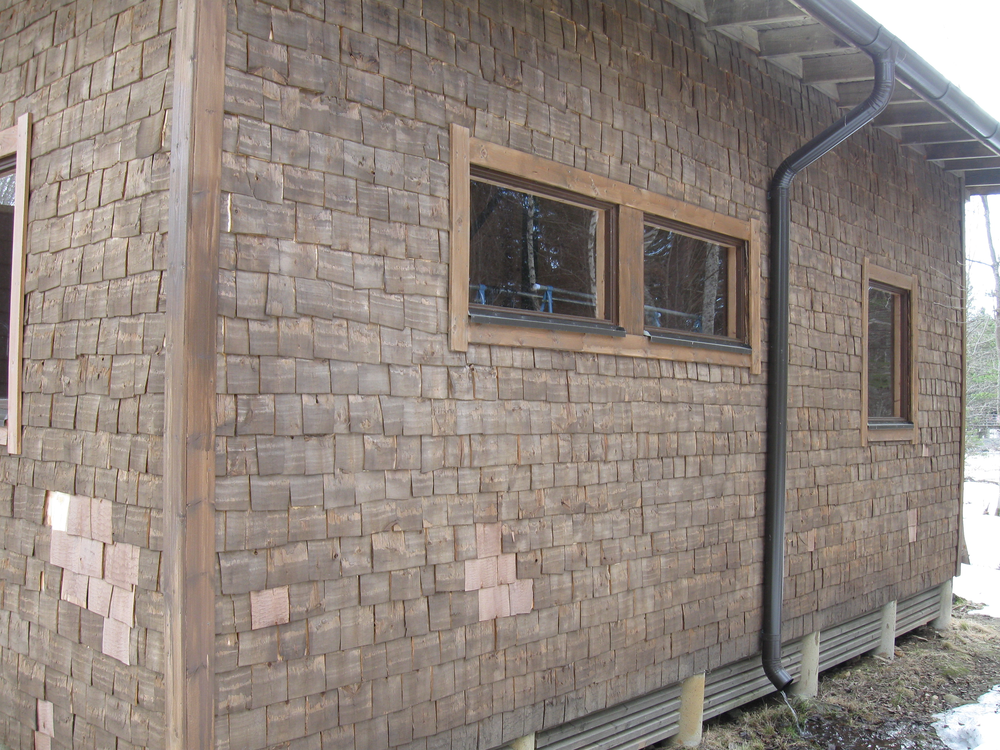 A small house covered by wood shingles at the Koitelikoski rapids of the Kiiminkijoki river in Oulu, Finland.